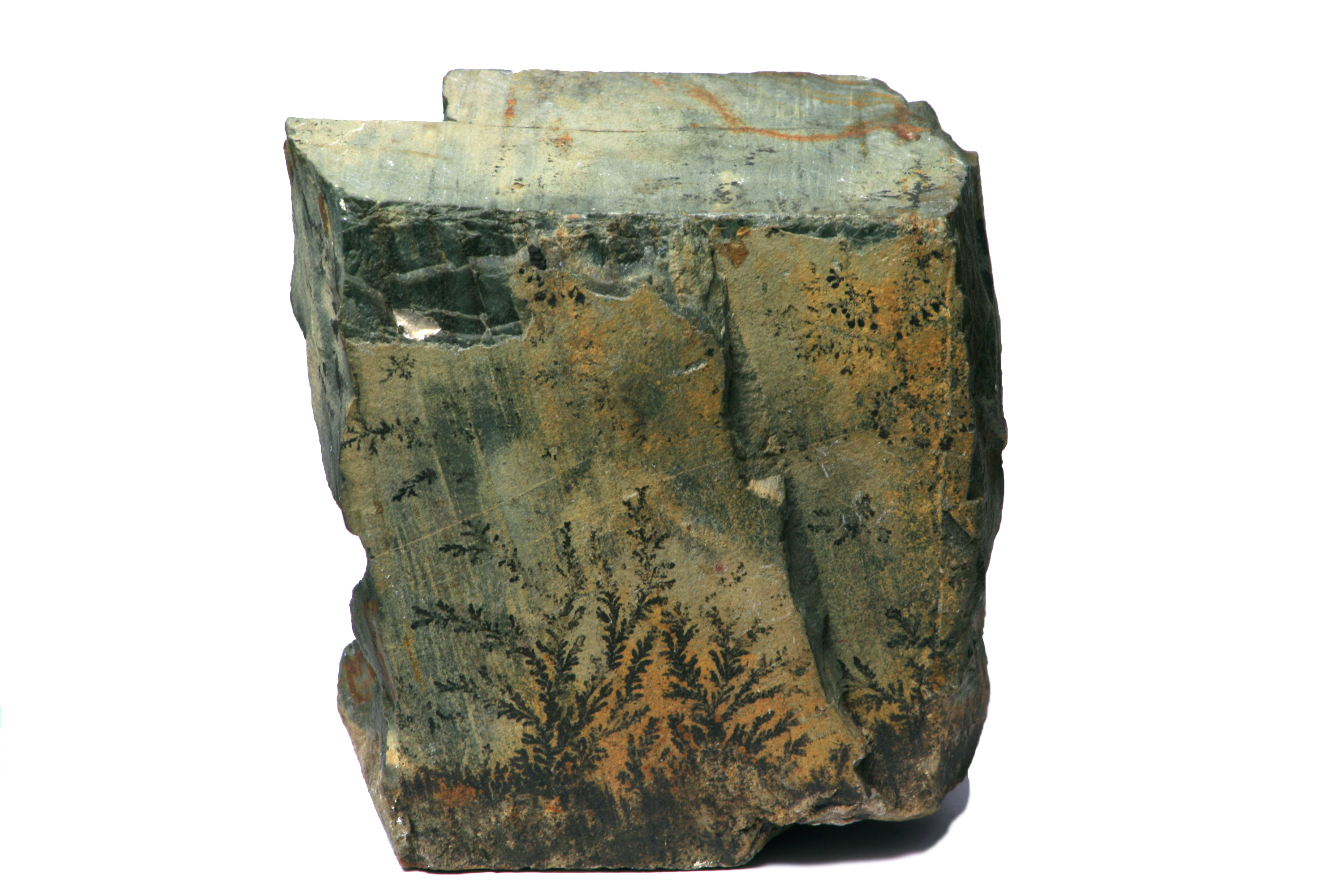 Macro of a pyrolusite mineral with dendrite crystal formations. It is approximately 3 ½ inches (9 cm) tall.